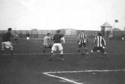 Match in the 1912 Icelandic football season between KR and Fram